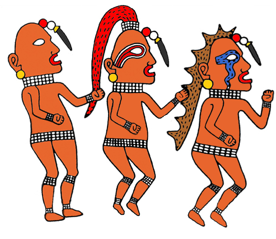 An S.E.C.C. engraved shell cup design possibly depicting Red Horn and his companions.